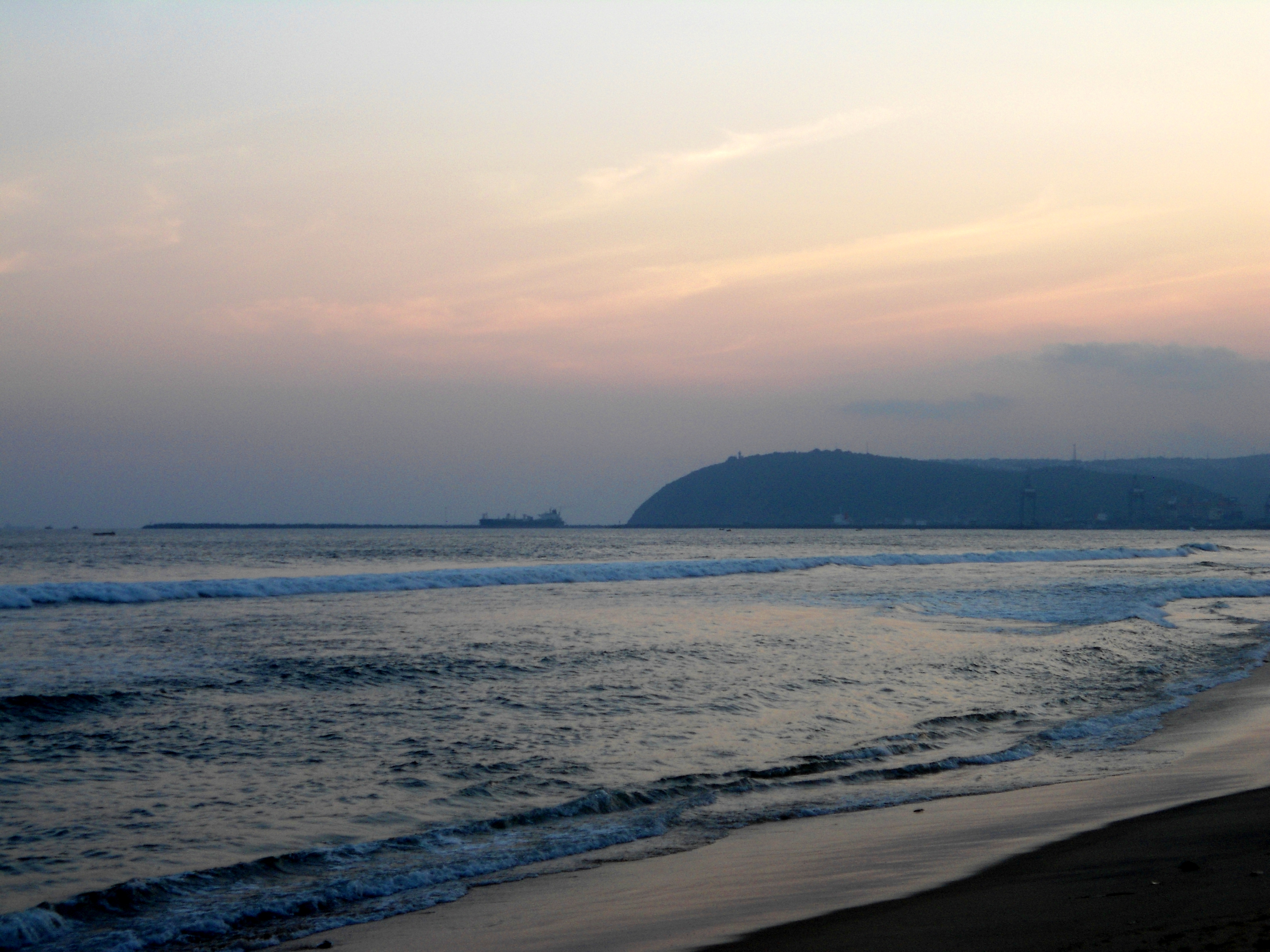 RK Beach at Sunset time in Visakhapatnam